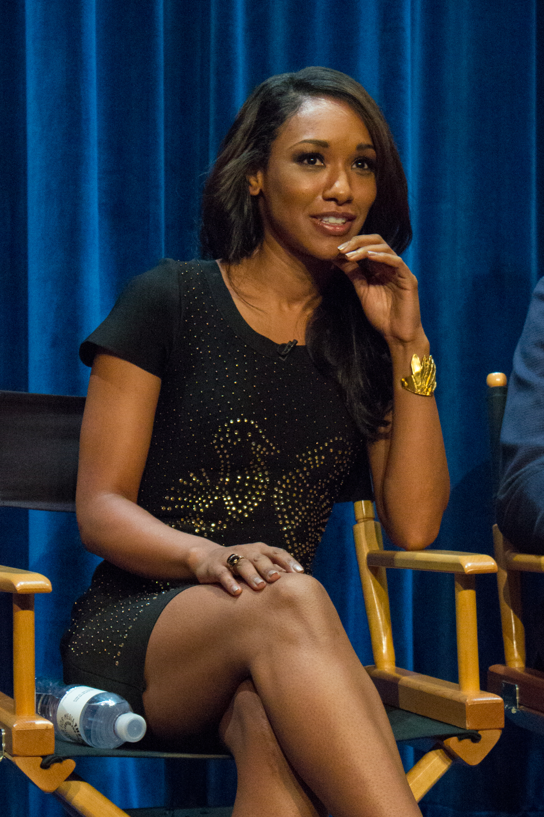 Actress Candice Patton at the PaleyFest Fall TV Previews 2014 for the TV show "The Flash"